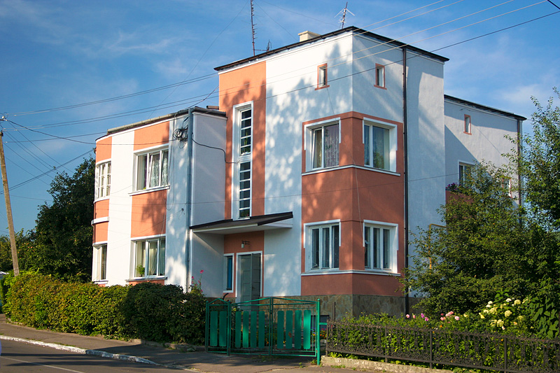 House on Soborna street